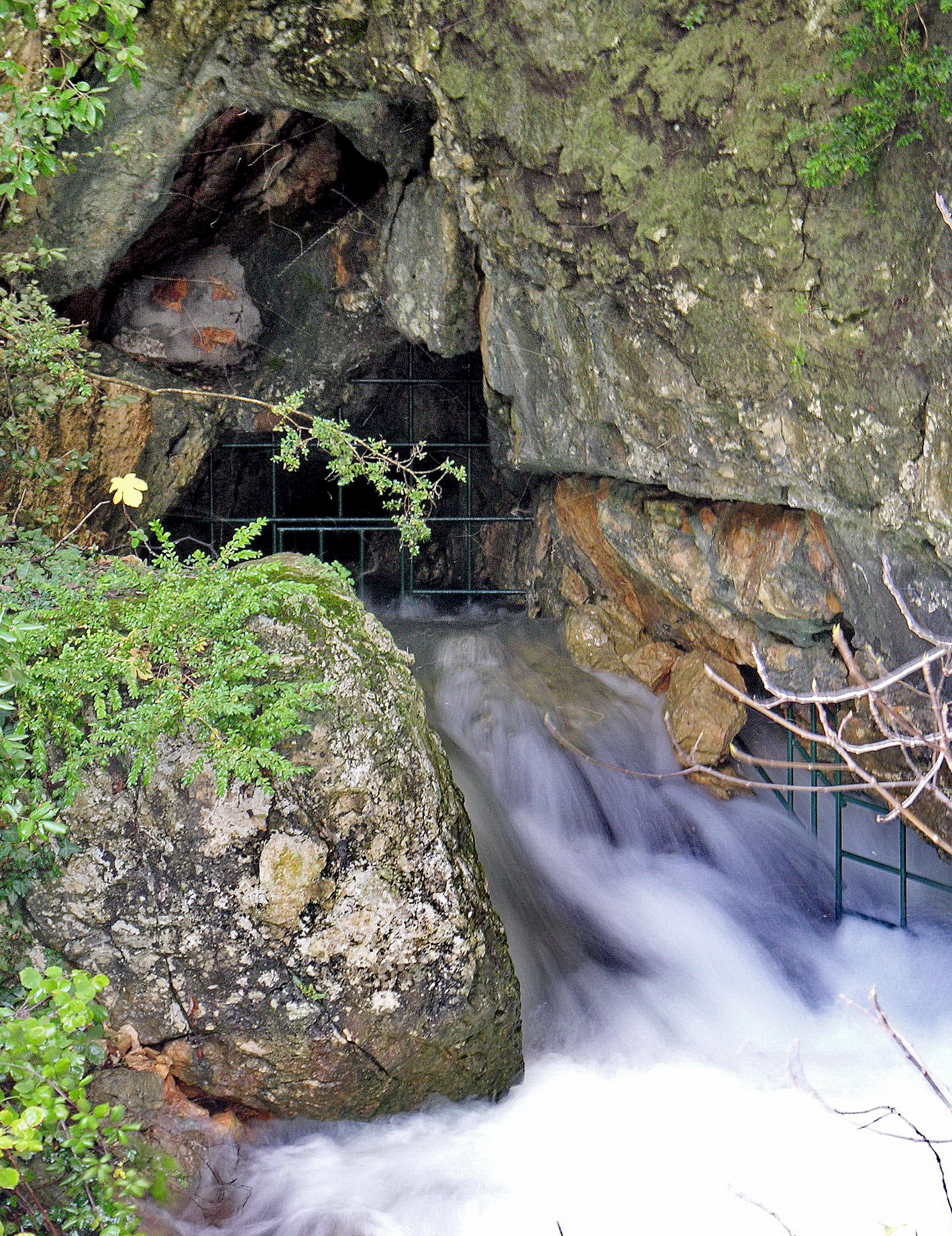 fréjus's Aqueduct : Neissoun exsurgence: the begining of Aqueduct form Mons to Frejus